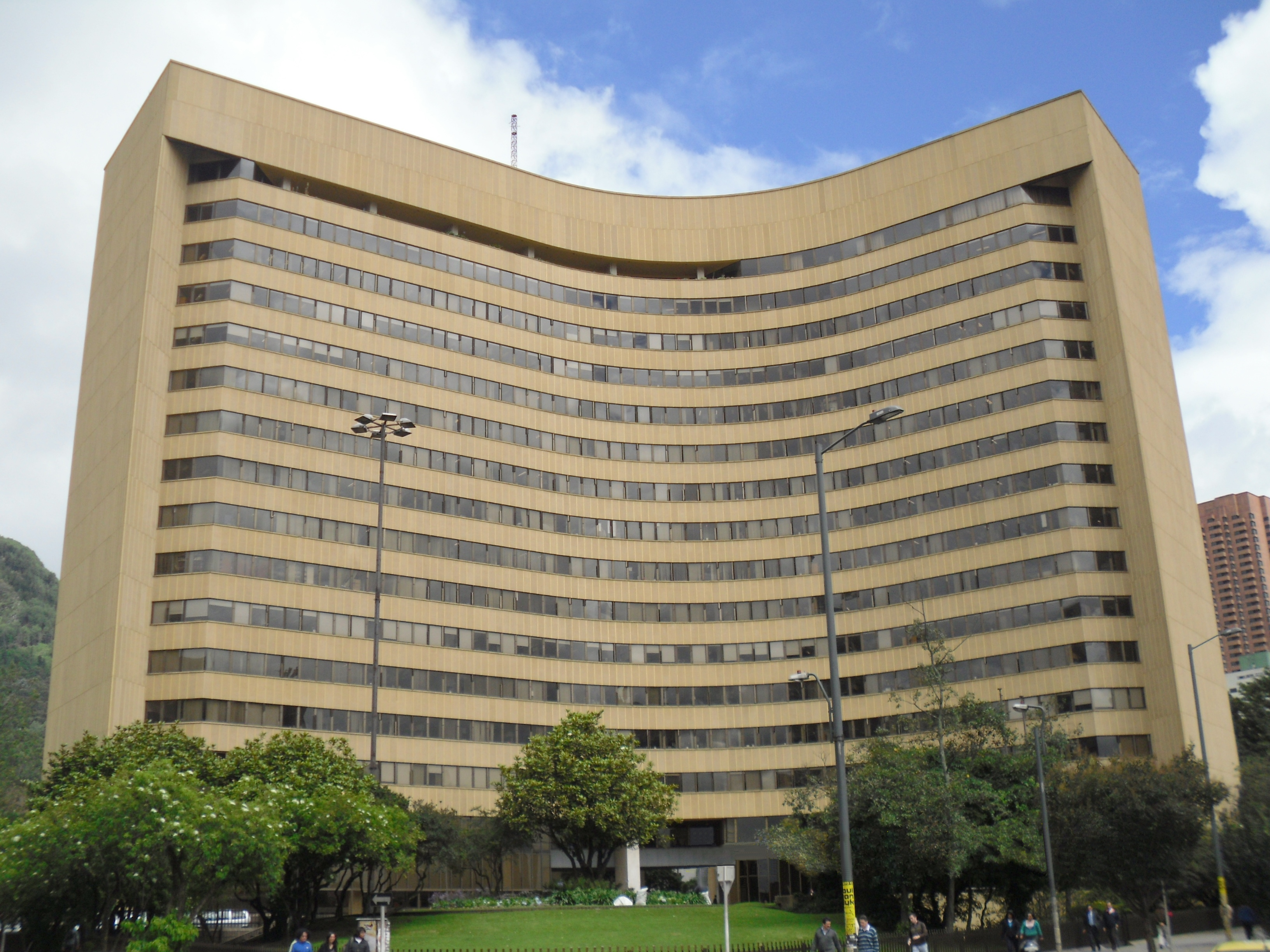 Bank of Bogota Build